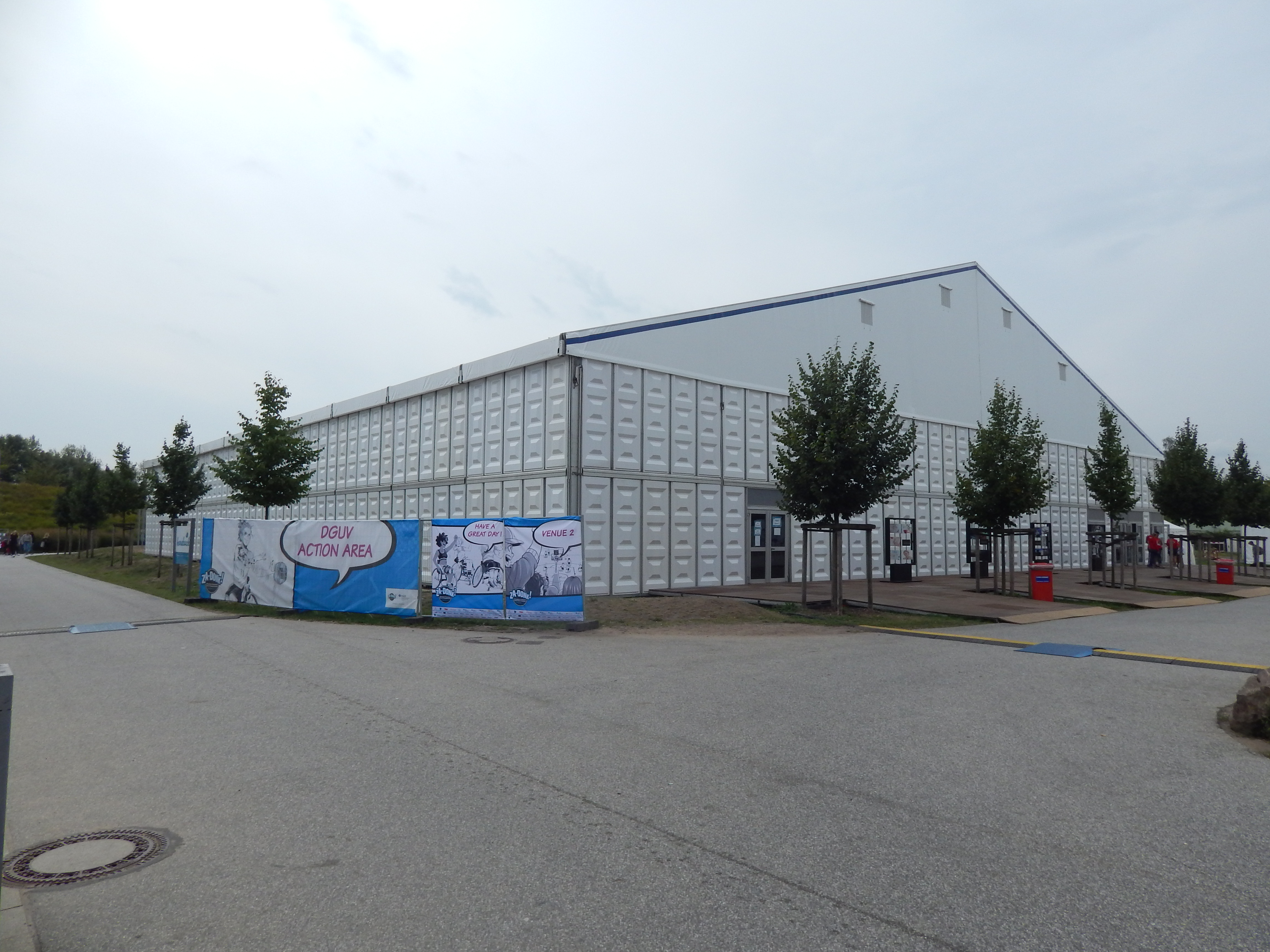 Temporary Venue 2 at the Edel-optics.de Arena during the 2018 World Wheelchair Basketball Championships